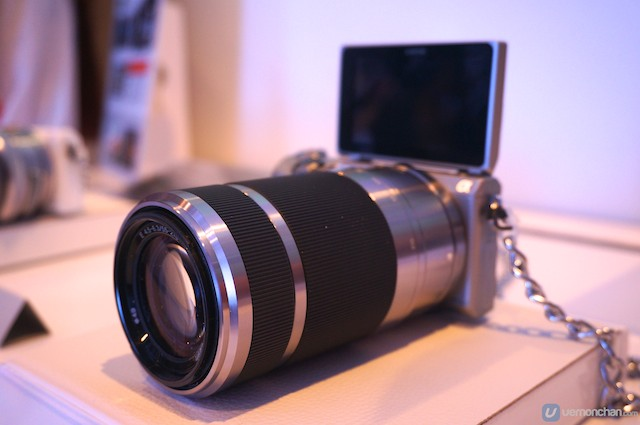 Sony launches its new 2013 camera range including the new Sony NEX-5T, RX100 II, FDR-AX1 4K Handycam, HDR-MV1 Music Video Recorder, Action Cam HDR-AS30V, Cyber-shot DSC-QX100 & QX10, Alpha 3000 mirror-less camera.